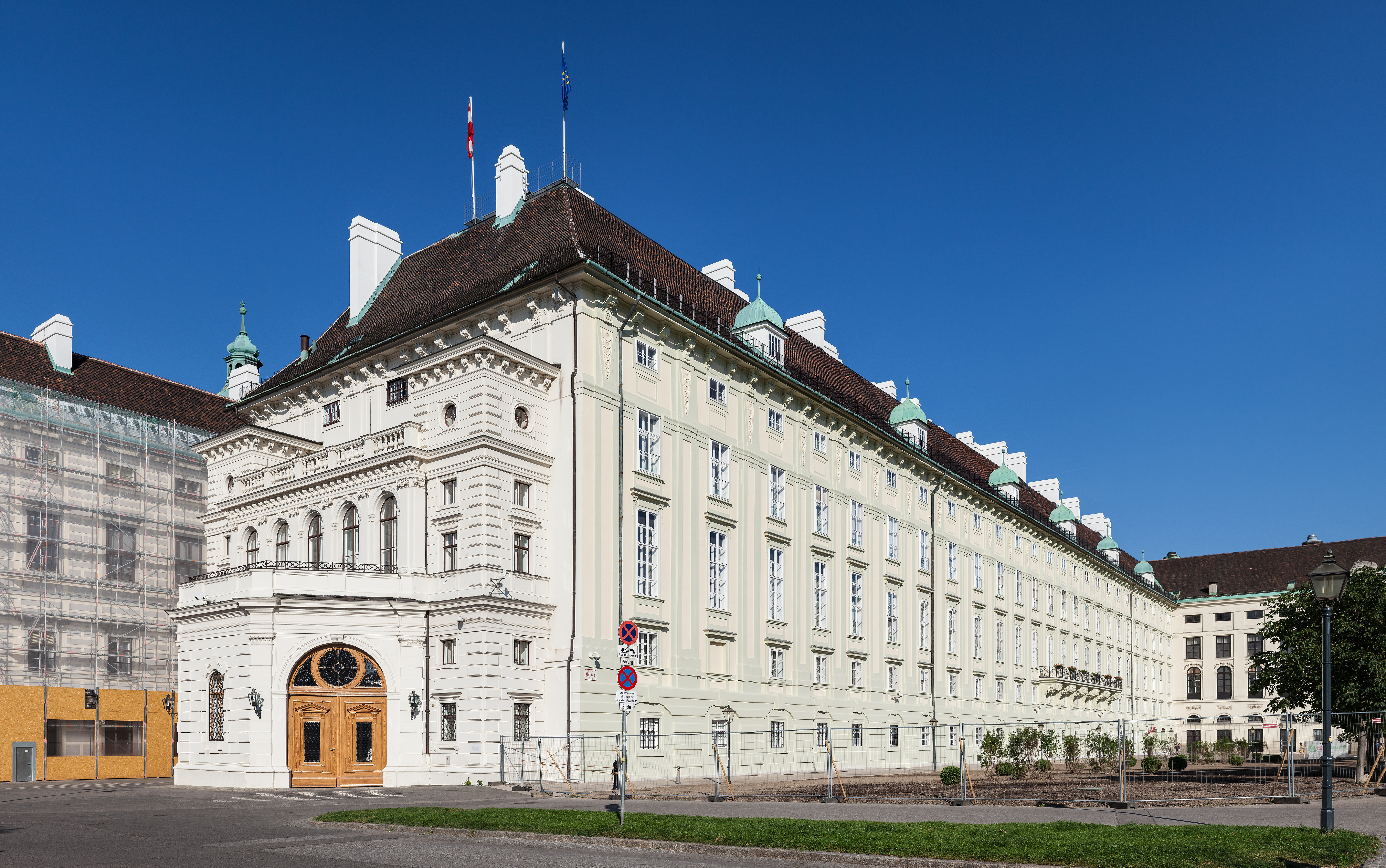 Office of the Federal President of Austria in Vienna